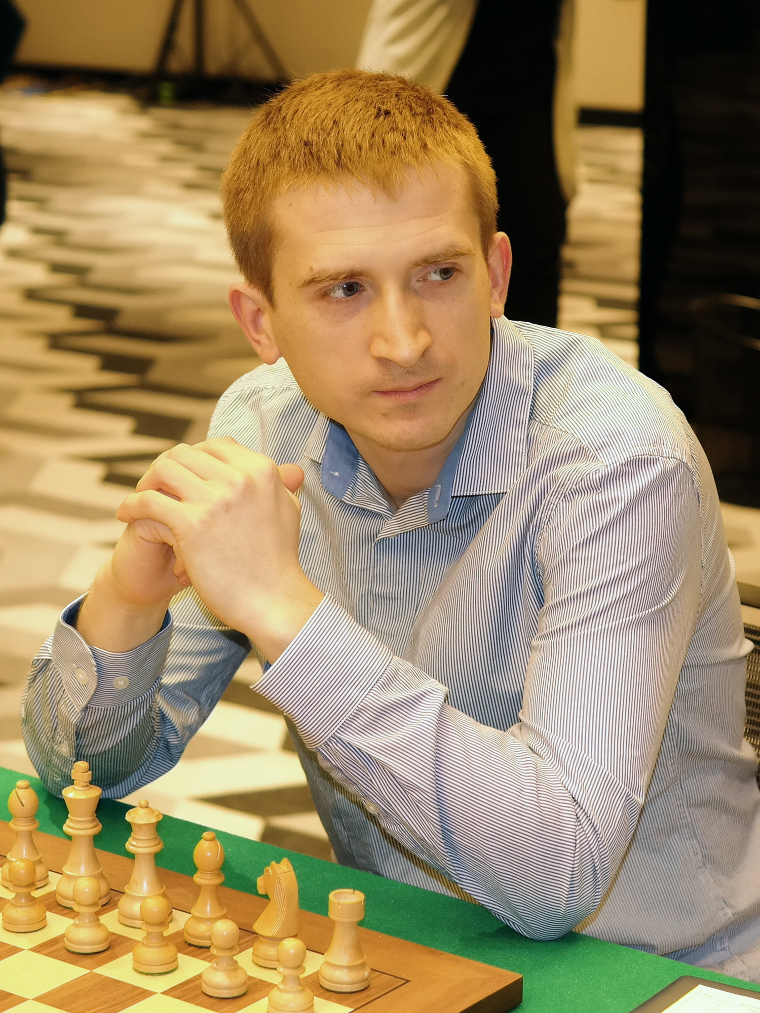 GM Grzegorz Gajewski, Polish Chess Championship, Warsaw 2014